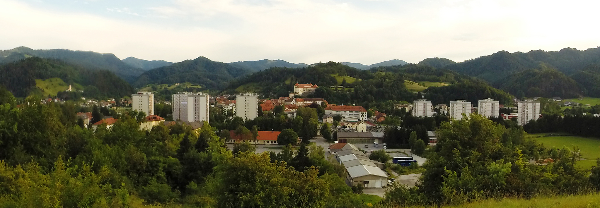 View from Kamnitnik on the tower blocks at Partizanska cesta, Škofja Loka